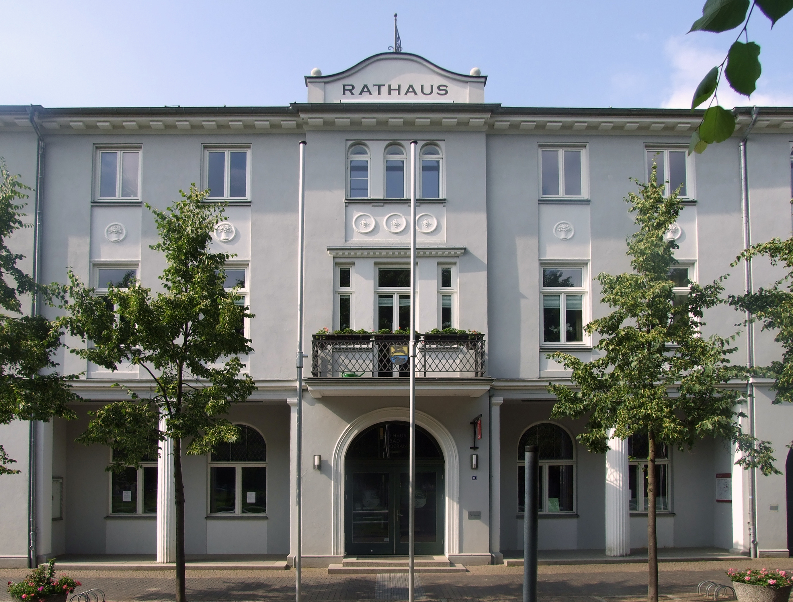 City Hall Bad Doberan